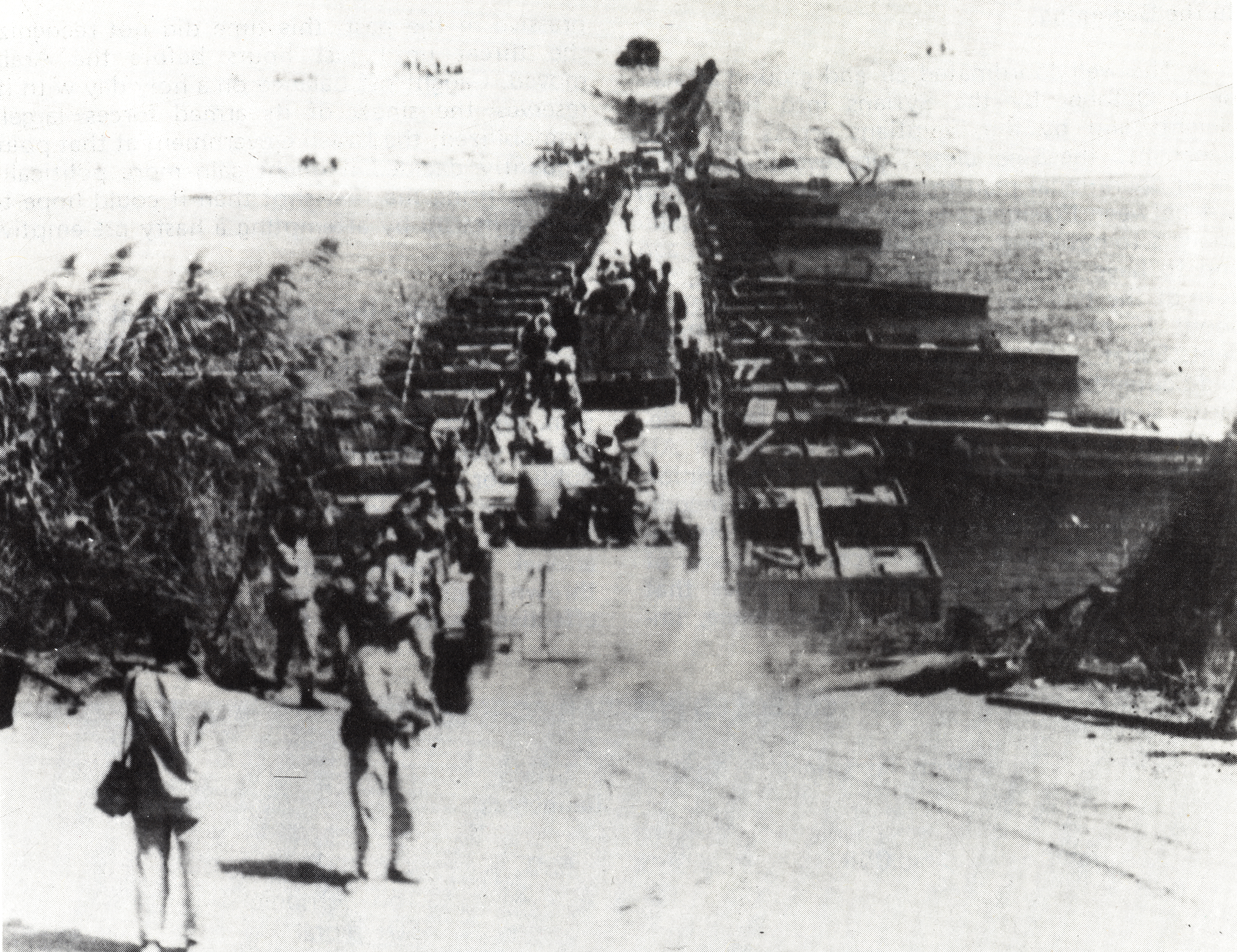 Egyptians cross the Suez Canal during the Arab-Israeli War. From the booklet "President Nixon and the Role of Intelligence in the 1973 Arab-Israeli War." For more information, visit